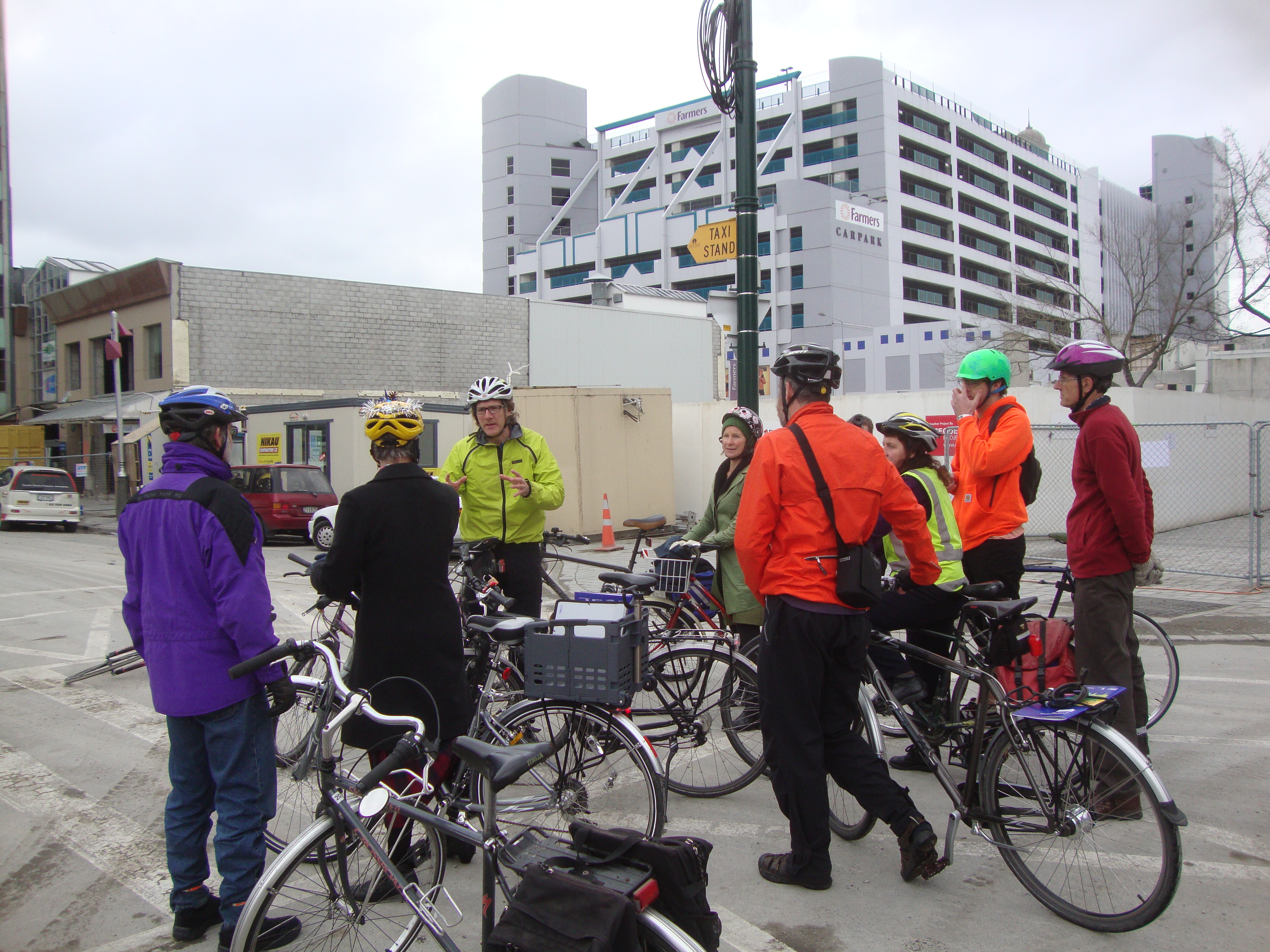 Members of Spokes meeting with Roger Sutton in Cathedral Square (red zone).